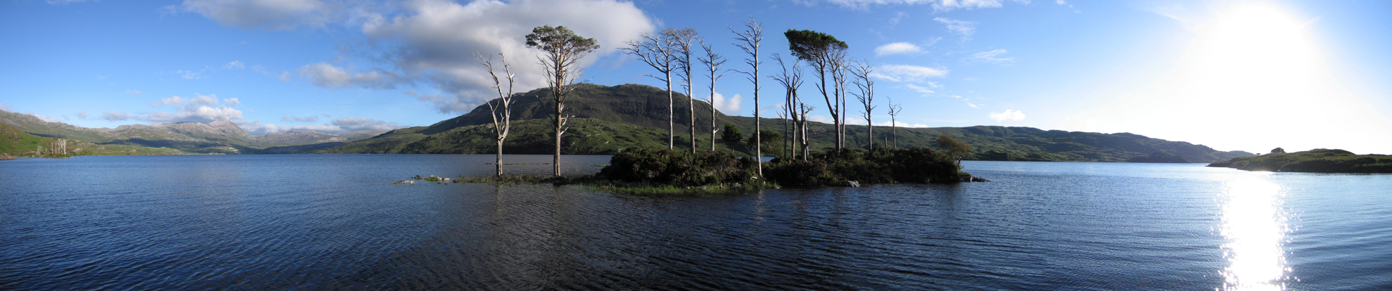 Panorama of the Loch Assynt